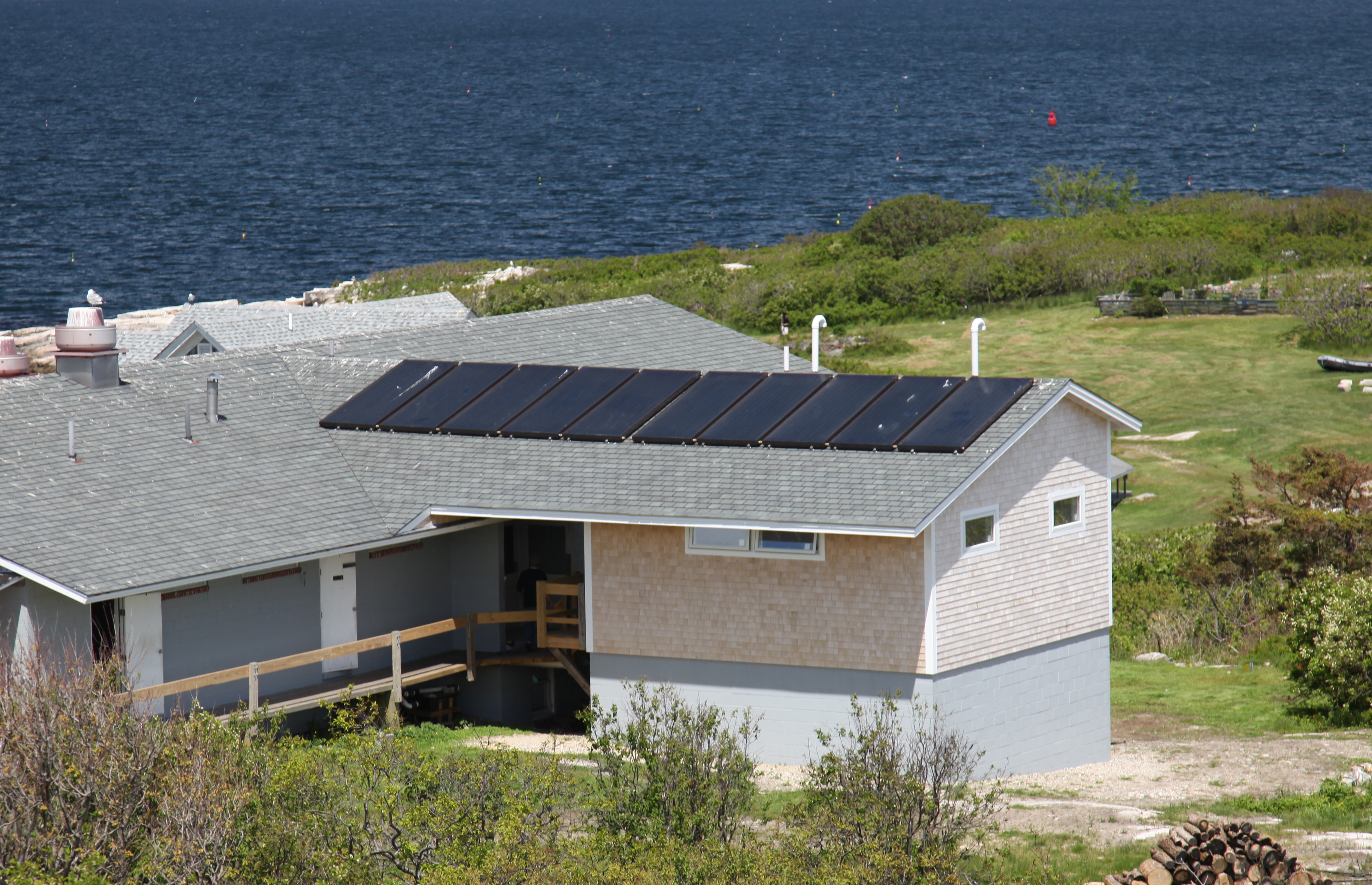 Solar hot water panels on the roof of the water conservation building / Kiggins Commons at Shoals Marine Lab, Appledore Island, Maine.